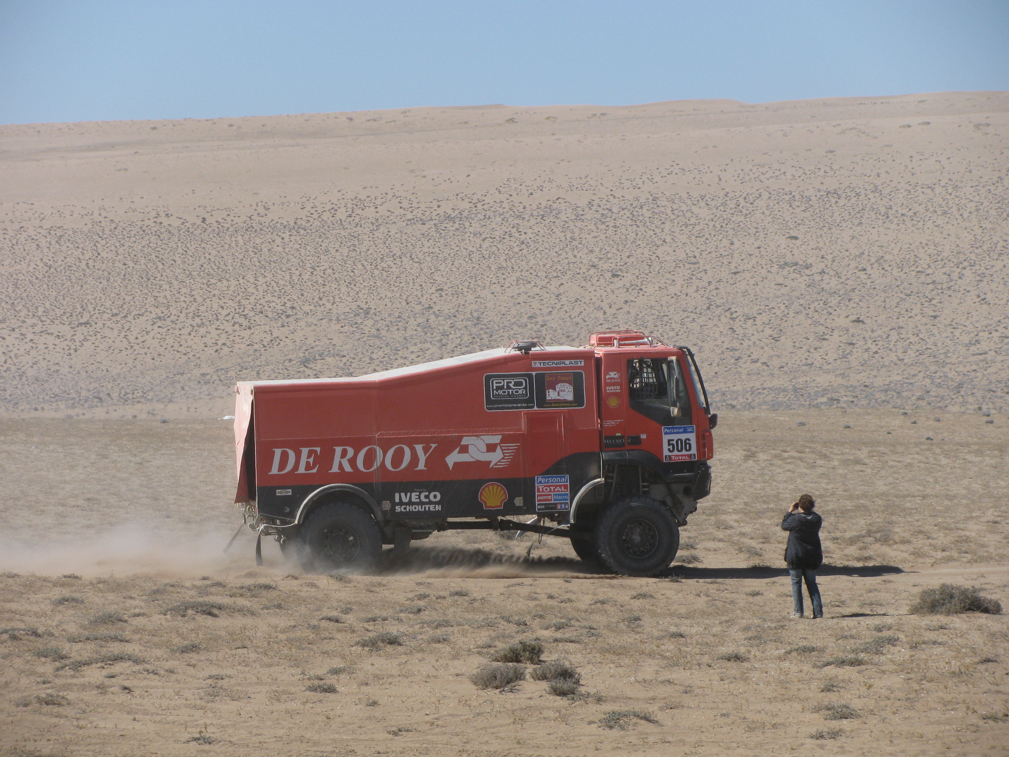 Iveco Trakker, Dakar 2011 Copiapó PEP VILA (ESP) MOI TORRALLARDONA (ESP) PETER VAN EERD (NLD)